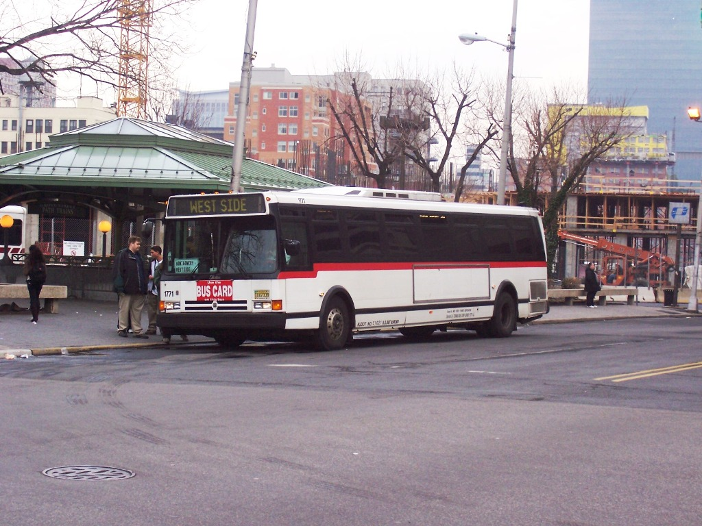 1994 Montgomery and Westside IBOA Flxible #1771 at Grove Street (PATH station) (see File:Grove PATH plat jeh.JPG) in Jersey City, New Jersey.